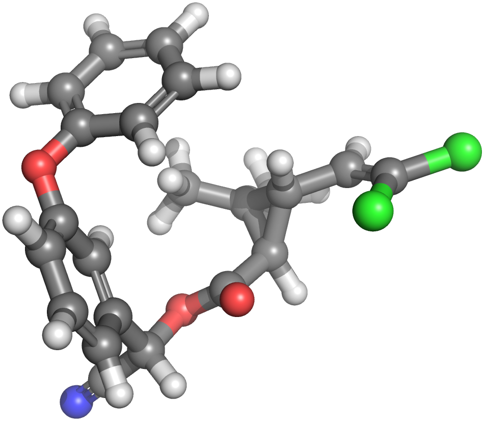 cypermethrin 3D model.